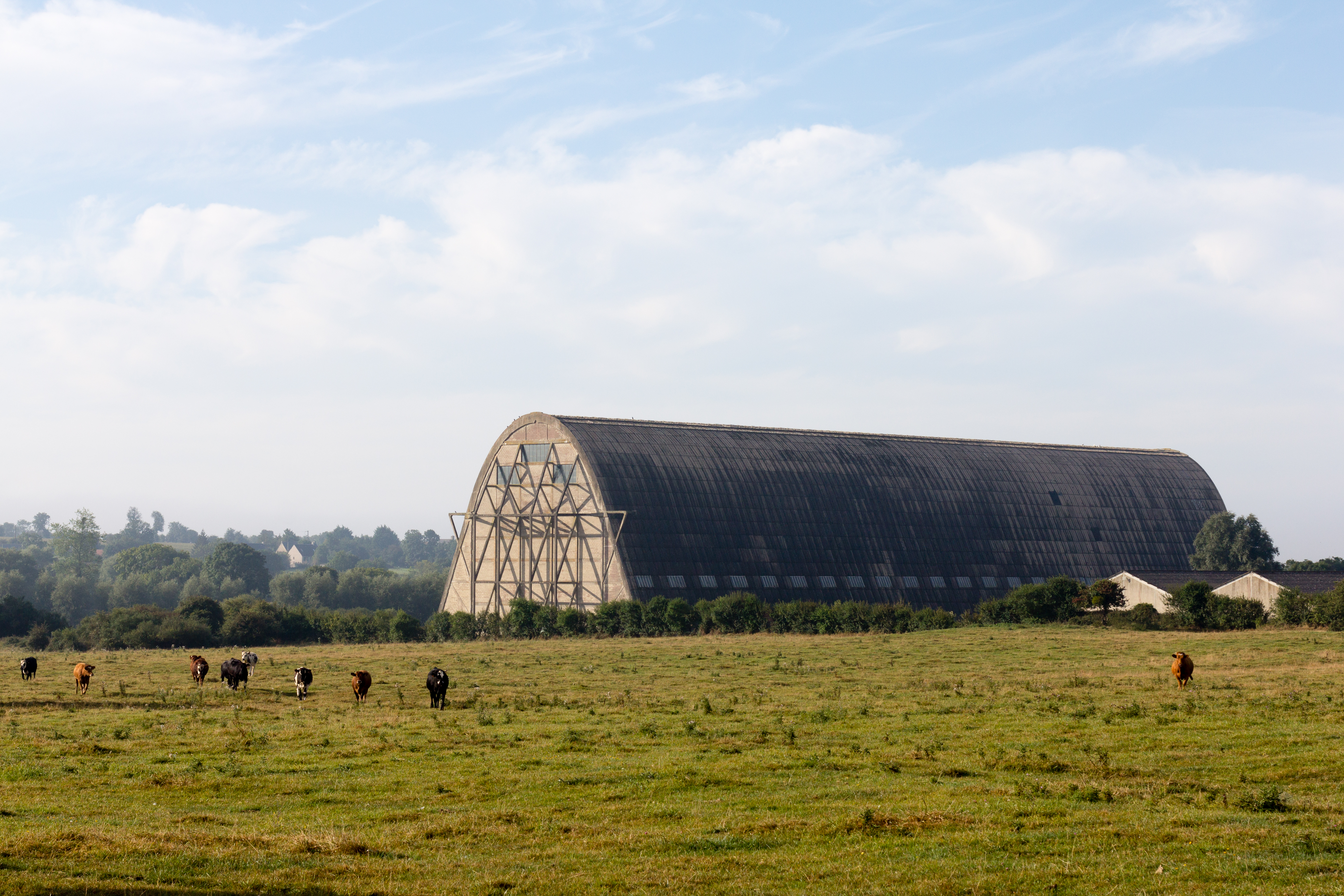 Airships hangar in Écausseville (Manche, France).